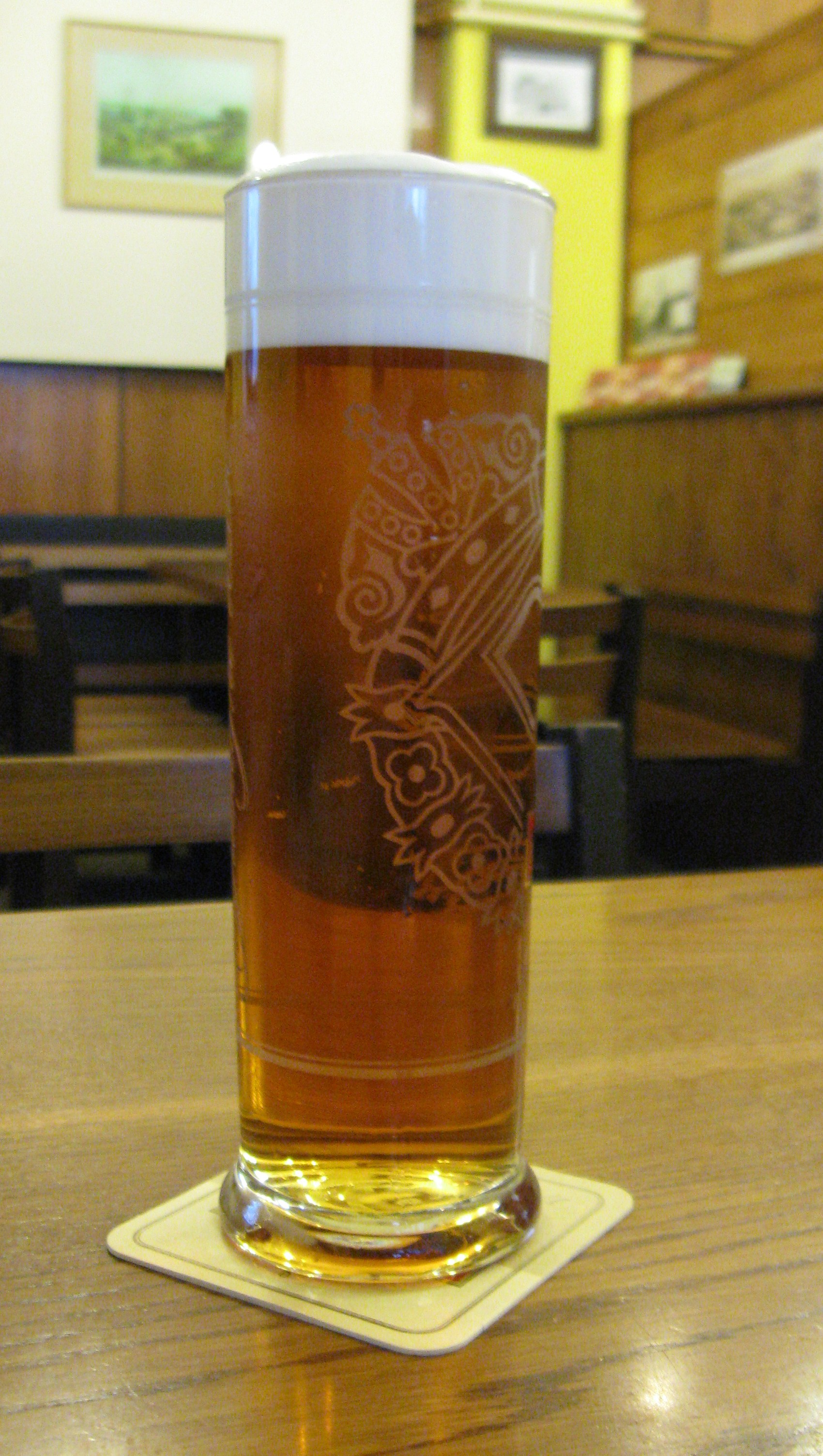 Krušovice Mušketýr beer, Na Huse restaurant, Svatý Mikuláš, Czech Republic.